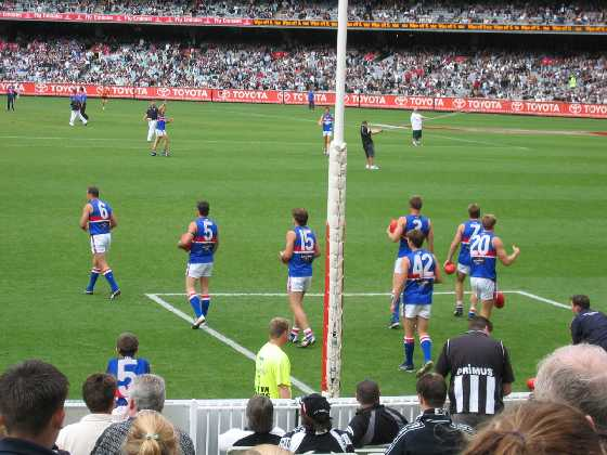 Western Bulldogs Warmup against Collingwood. Digital Photo I took before game.